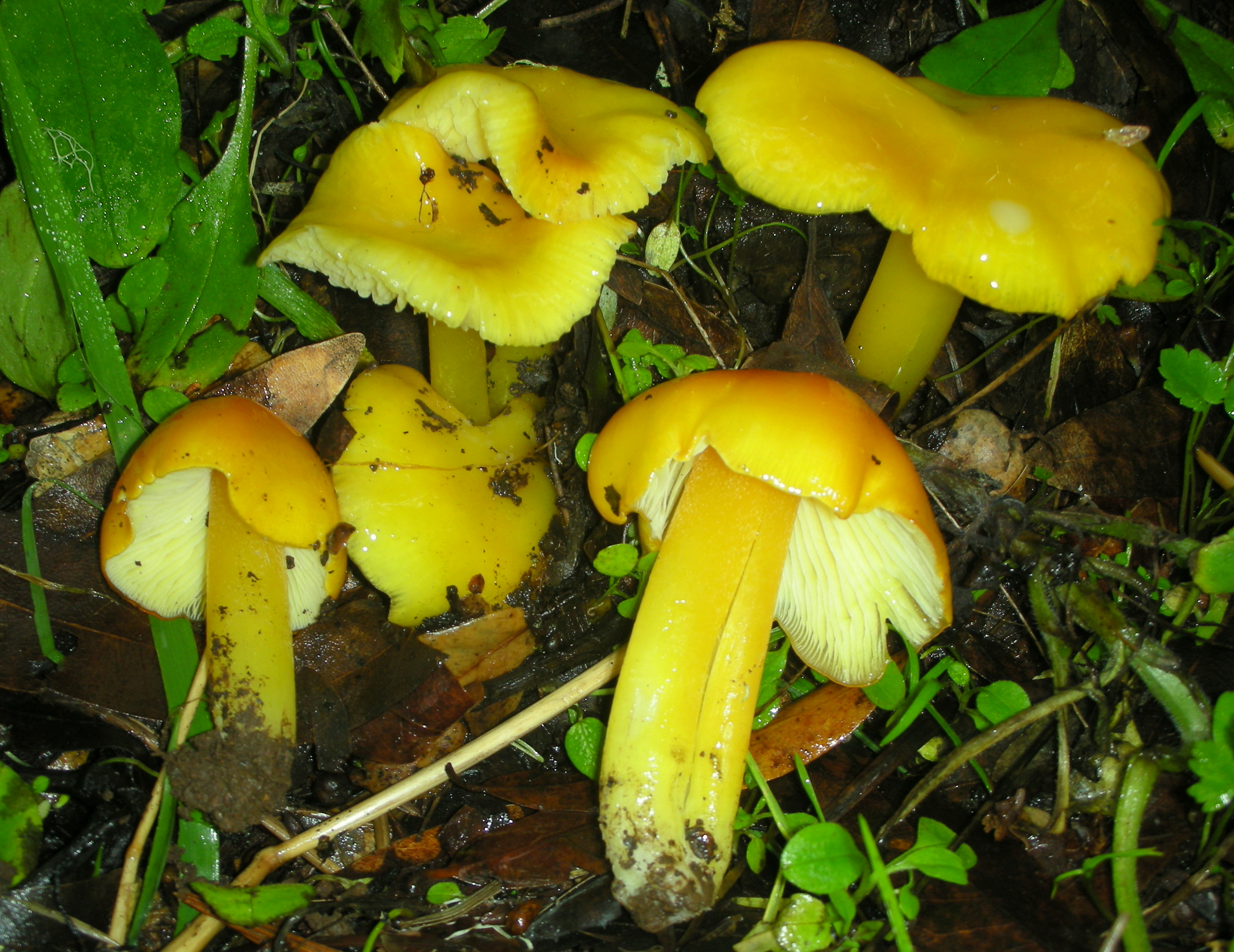 Hygrocybe flavescens (Kauffman) Singer Location: Samuel P. Taylor State Park, Marin Co., California, USA Observation Notes: Spores ~ 7.0 X 5.0 microns. For more information about this, see the observation page at Mushroom Observer.